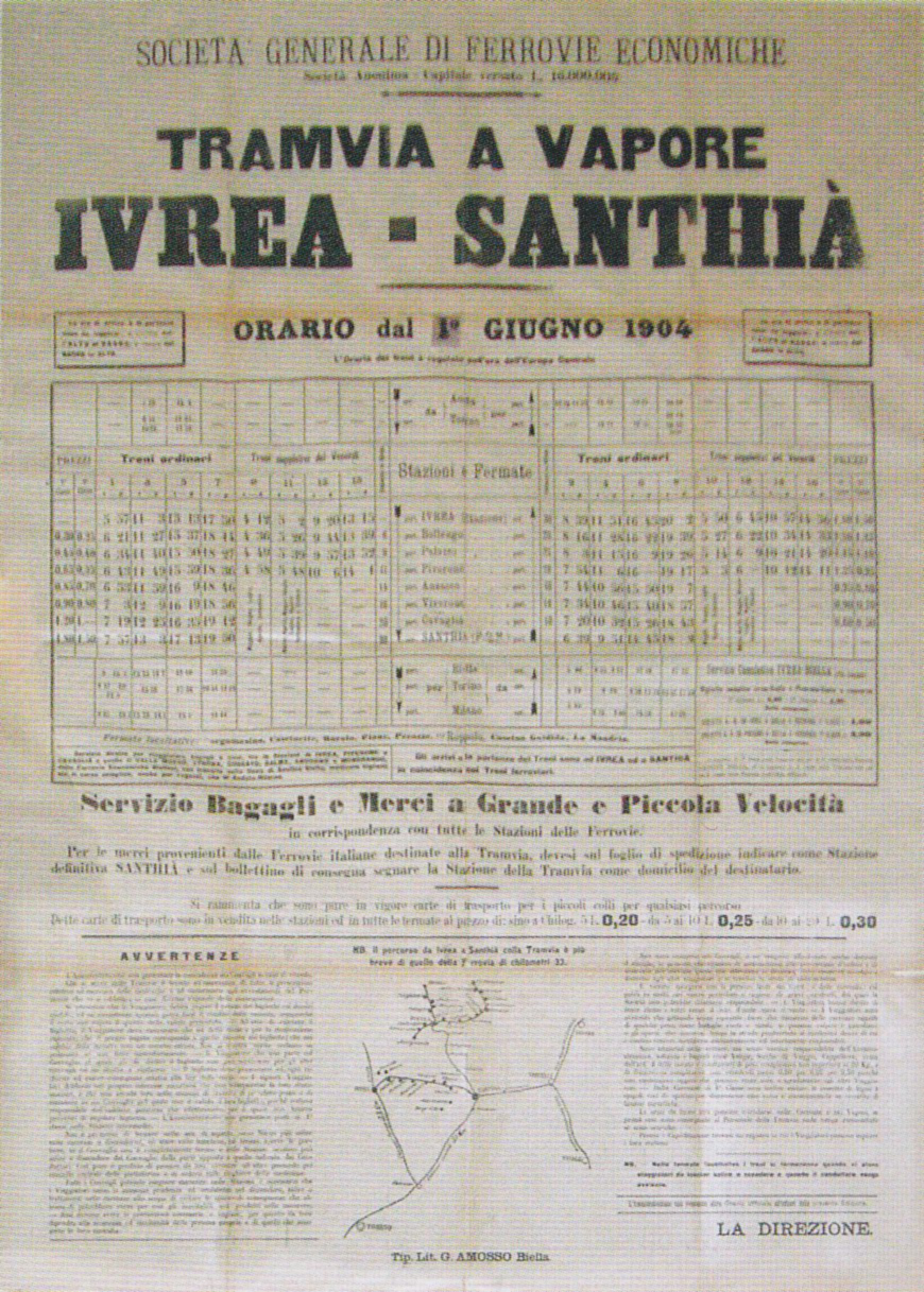 Santhià-Ivrea tramway timetable